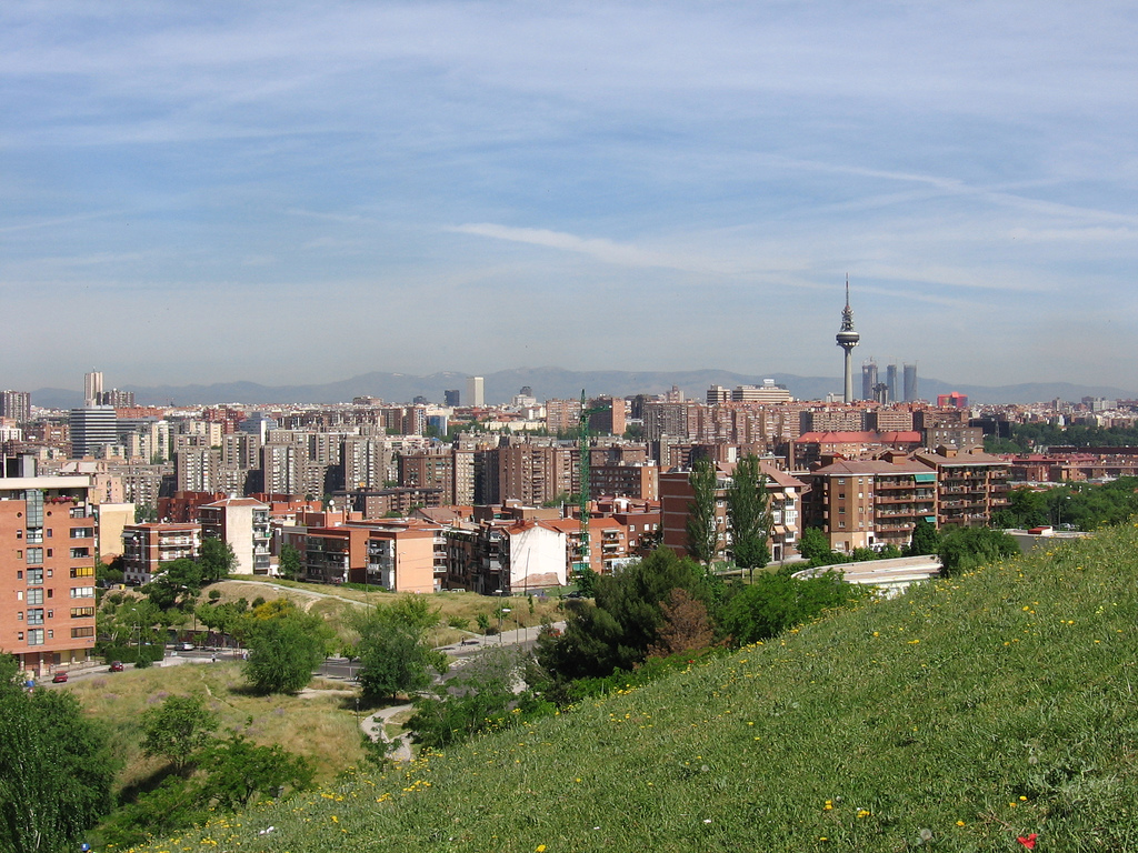 View of Madrid (Spain) from Parque del Cerro del Tío Pío (a park), in Numancia neighborhood (Puente de Vallecas district).